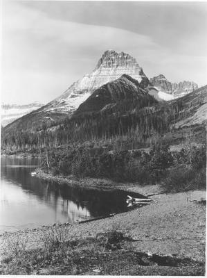 Title: Glacier National Park: Mt. Wilburn and Lake McDermott Creator: Hileman, T. J. Date: Unknown Description: Photo from the shore of a lake across to forested mountains with a larger rocky mountain in the background. Written on Verso: Heavy Shield Mountain and Jealous Woman's Lake. (By photographer: Mt. Wilburn and Lake McDermott) • I represent Montana State University Library and we are releasing this image into the Creative Commons. Keywords: glacier national park, mountains, lakes, scenic views, montana Object ID: 263